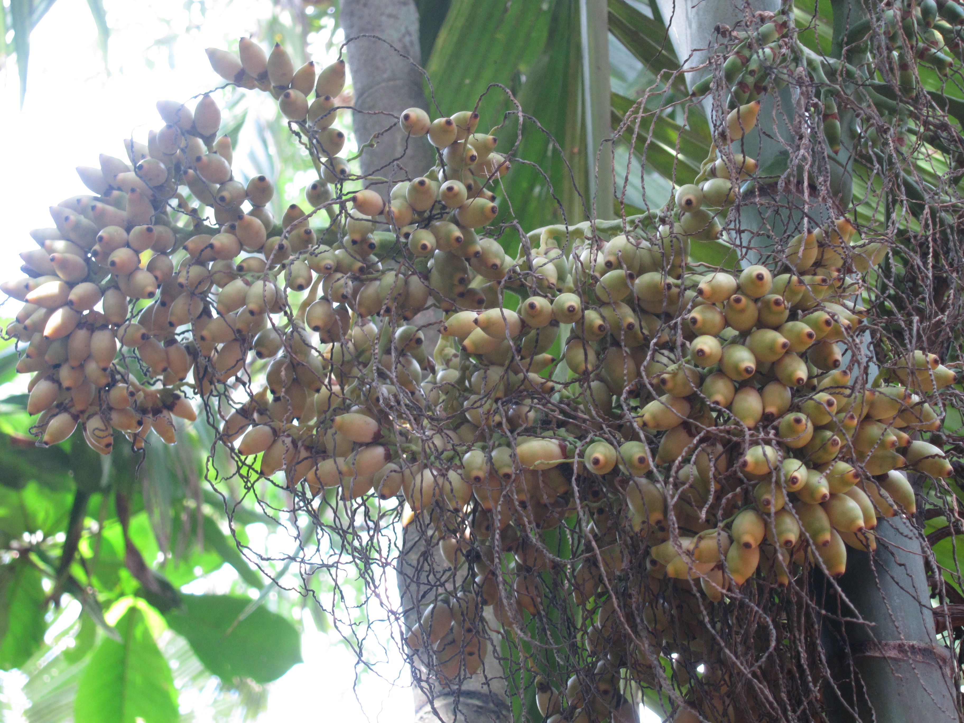 Mysore Areca Nut - Small in size